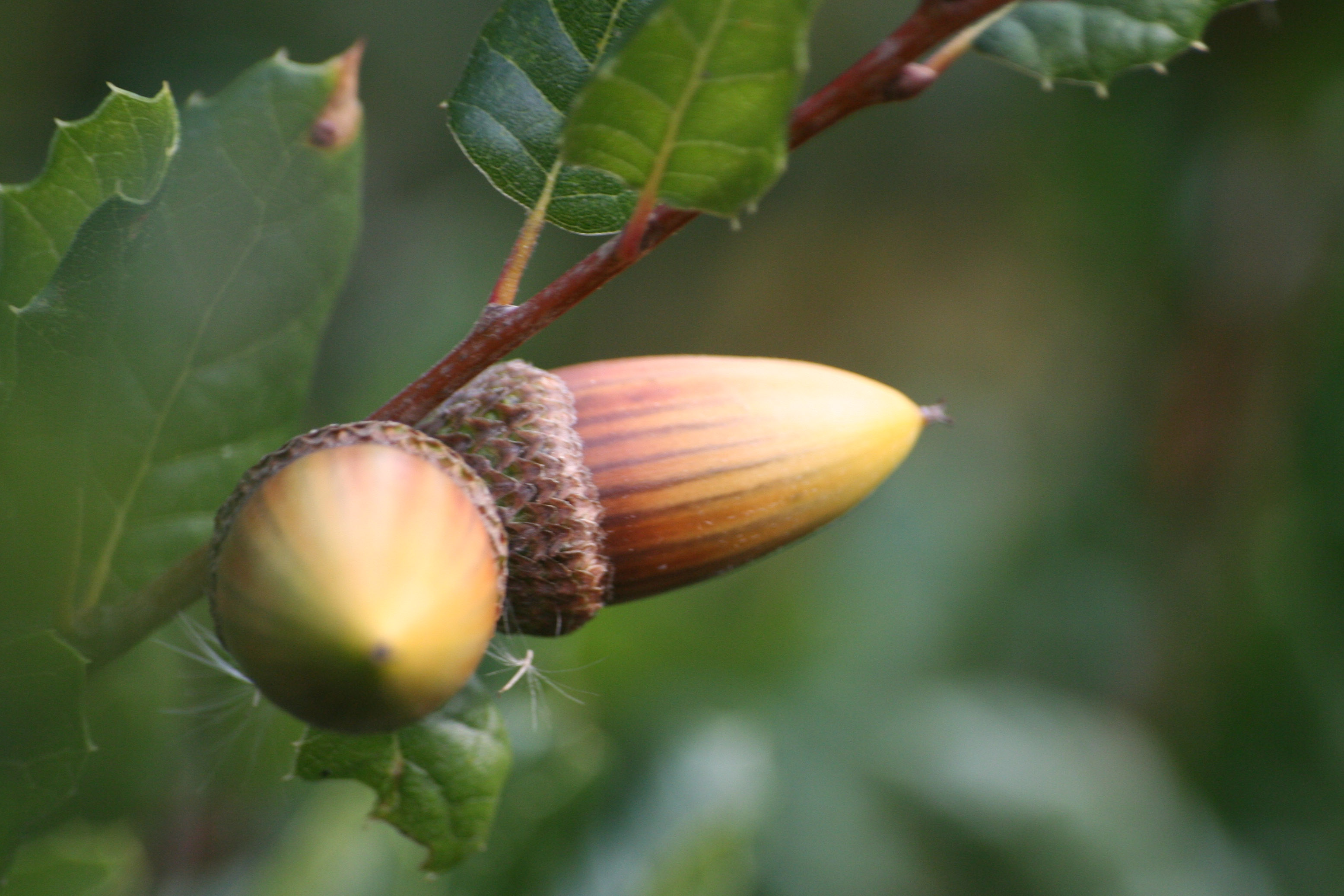 Coast Live Oak Quercus agrifolia acorns, Mount Diablo, California